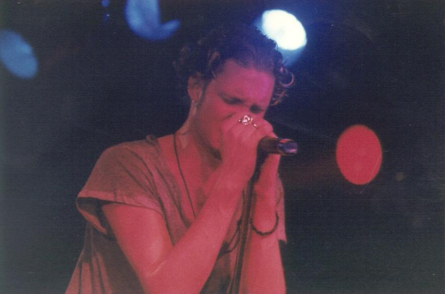 Layne Staley playing with Alice in Chains at The Channel in Boston, MA.